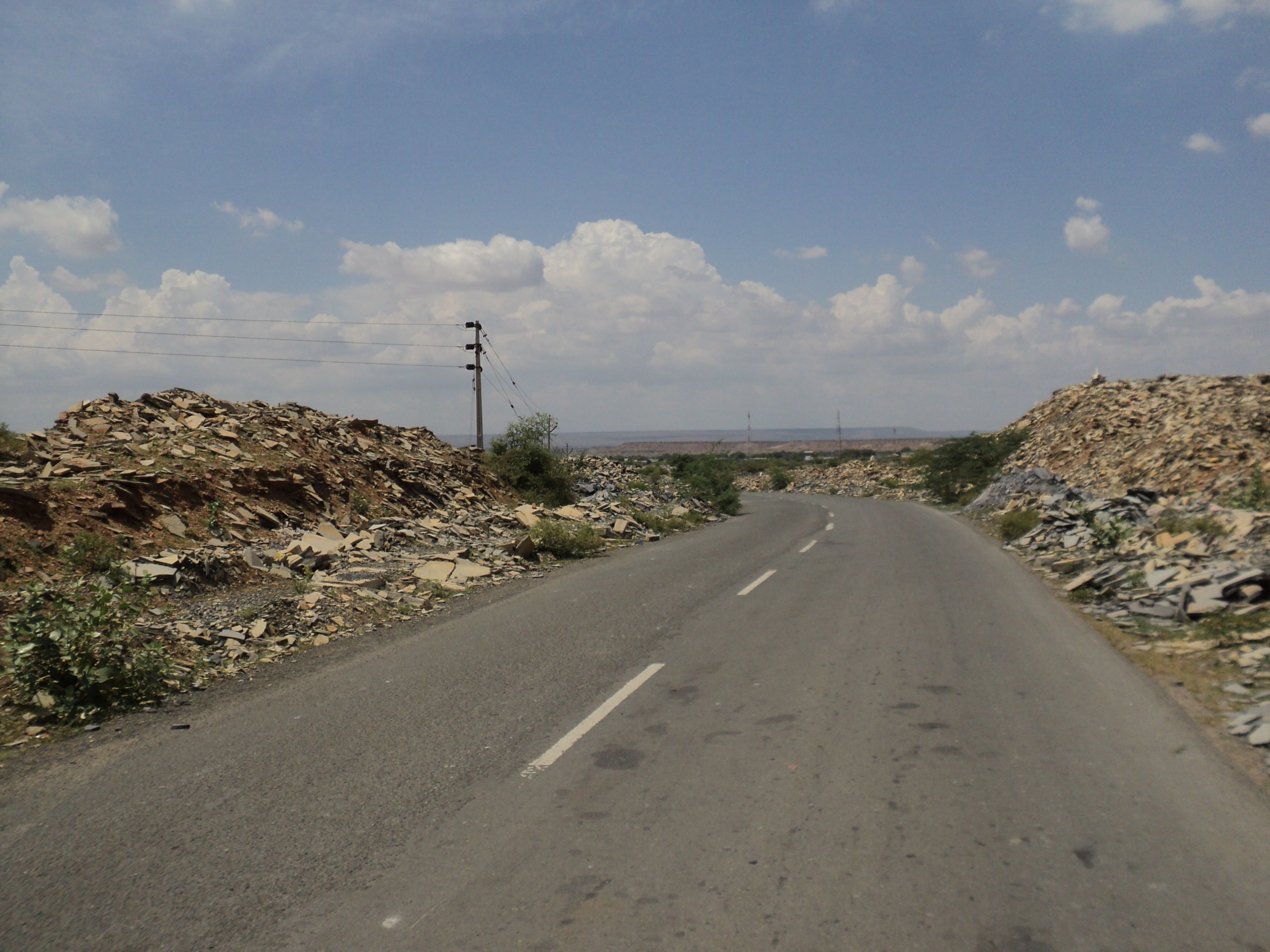 Road leading to Belum village